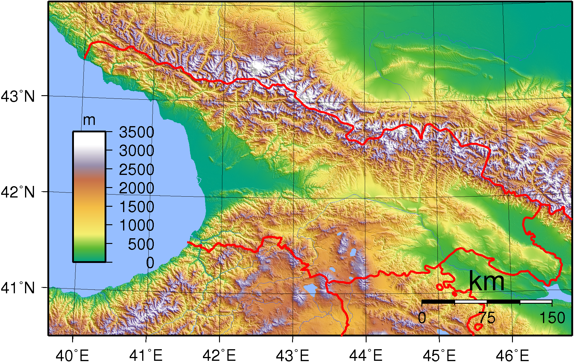 Topography of Georgia. Created with GMT from SRTM data.